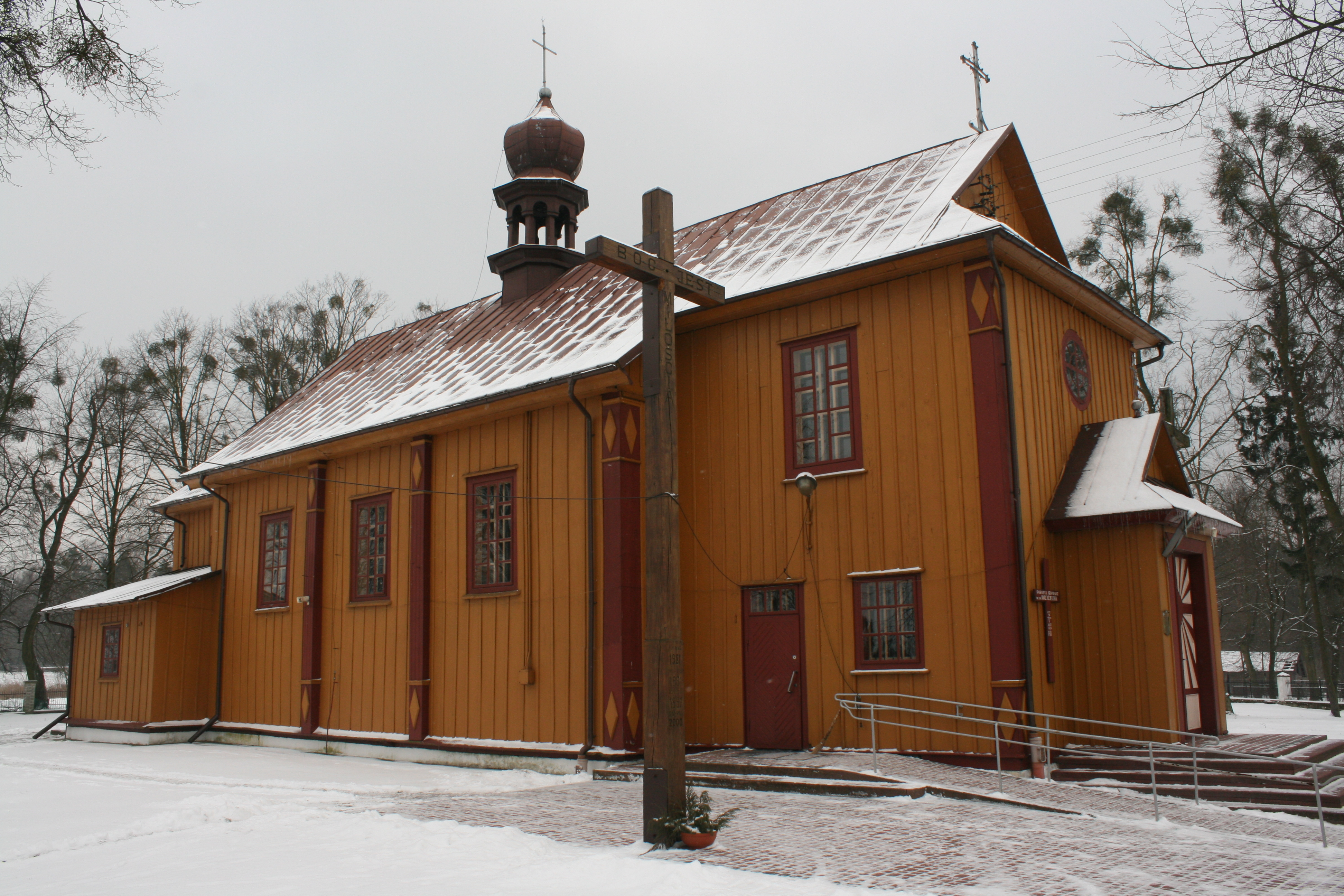 Roman Catholic church of Saint Adalbert and Our Lady of Rosary in Nielisz, Poland